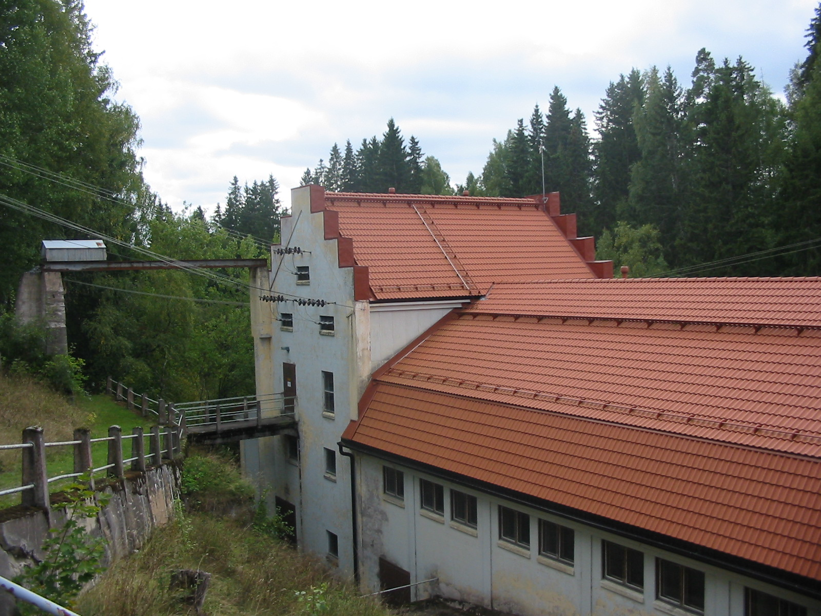 Juntolankoski hydroelectric power plant in River Paimionjoki, Paimio, Finland Proper, Finland